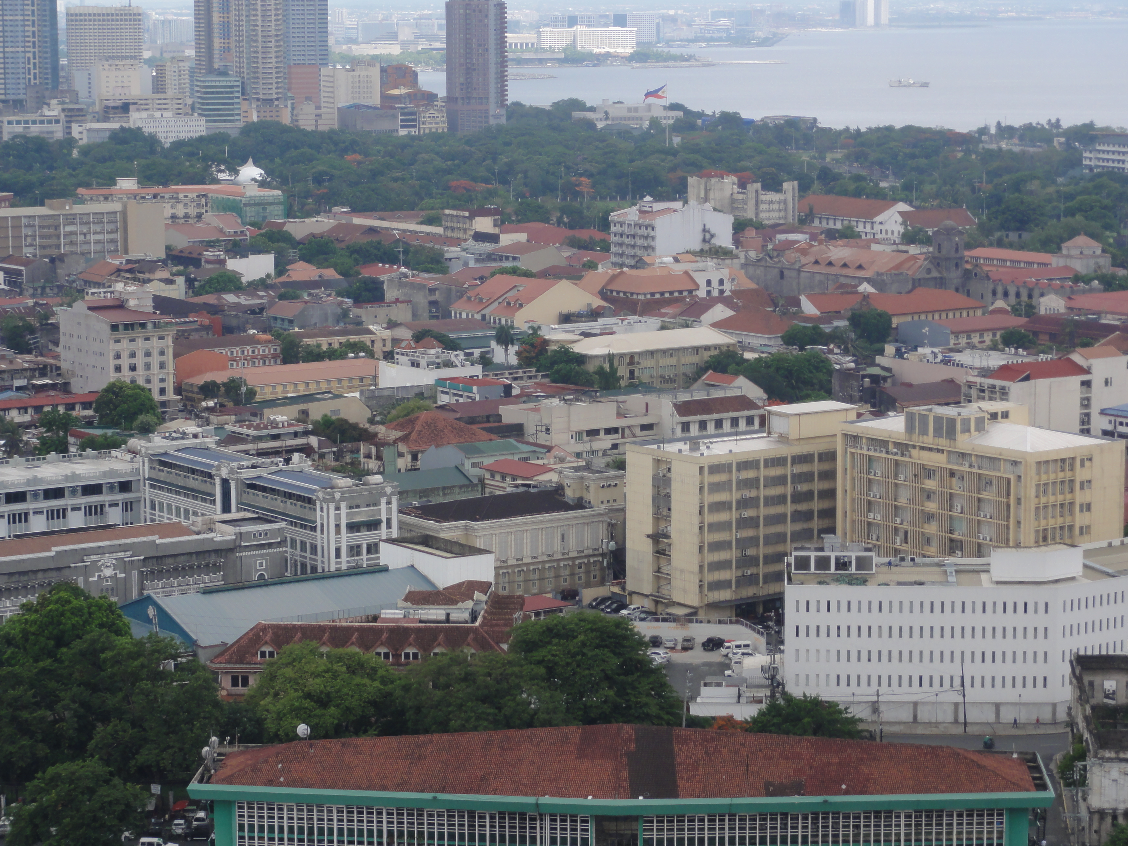 Aerial view of old buildings within Intramuros, Manila as of June 2015. Shot from the 31st floor of World Trade Exchange Tower in Binondo, Manila.